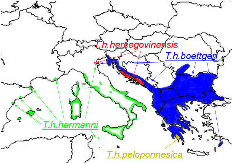 Areale Testudo hermanni